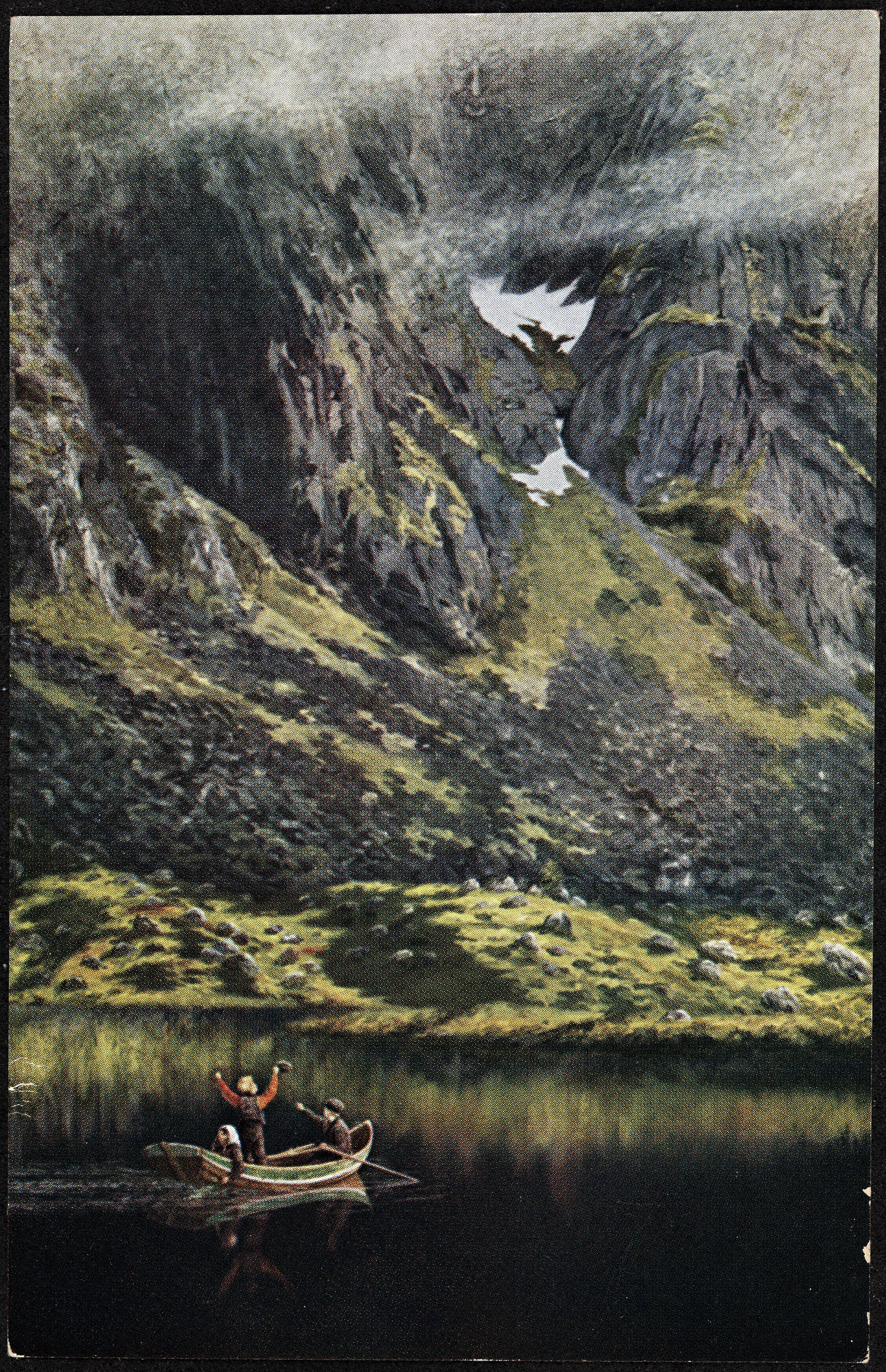 Beskrivelse / Description: Postkort / postcard. Tittel hentet fra Mittets tittel på baksiden av kortet. Dato / Date: malt i 1888, postkort utgitt ca. 1920 Kunstner / Artist: Theodor Kittelsen (1857-1914) Utgiver / Publisher: Mittet & Co. Digital kopi av original / Digital copy of original: postkort farge, trykt Eier / Owner Institution: Nasjonalbiblioteket / National Library of Norway Lenke / Link: Bildesignatur / Image Number: blds_06503